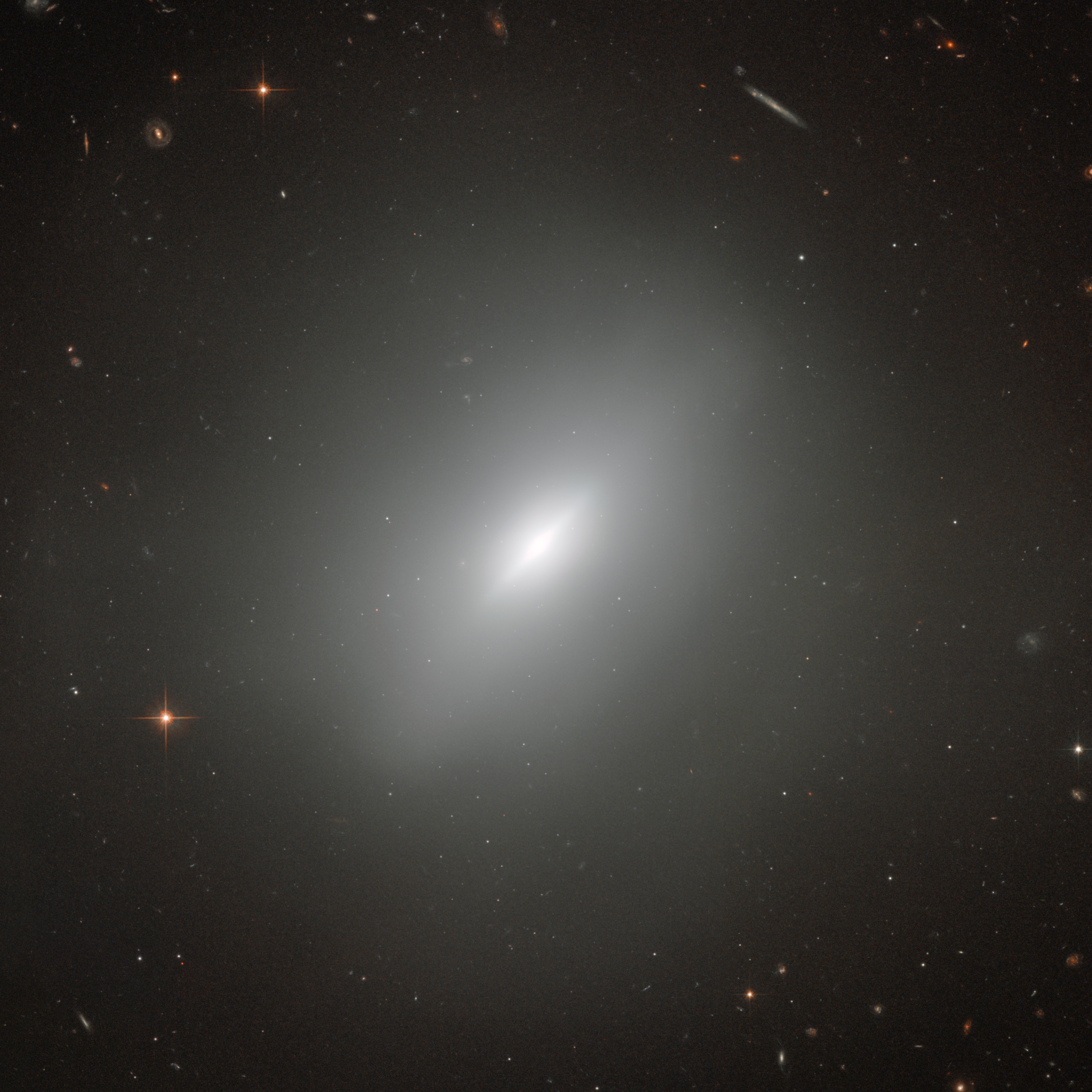 At the centre of this amazing image is the elliptical galaxy NGC 3610. Surrounding the galaxy are a wealth of other galaxies of all shapes. There are spiral galaxies, galaxies with a bar in their central regions, distorted galaxies and elliptical galaxies, all visible in the background. In fact, almost every bright dot in this image is a galaxy — the few foreground stars are clearly distinguishable due to the diffraction spikes that overlay their images. NGC 3610 is of course the most prominent object in this image — and a very interesting one at that! Discovered in 1793 by William Herschel, it was later found that this elliptical galaxy contains a disc. This is very unusual, as discs are one of the main distinguishing features of a spiral galaxy. And NGC 3610 even hosts a memarkable bright disc. The reason for the peculiar shape of NGC 3610 stems from its formation history. When galaxies form, they usually resemble our galaxy, the Milky Way, with flat discs and spiral arms where star formation rates are high and which are therefore very bright. An elliptical galaxy is a much more disordered object which results from the merging of two or more disc galaxies. During these violent mergers most of the internal structure of the original galaxies is destroyed. The fact that NGC 3610 still shows some structure in the form of a bright disc implies that it formed only a short time ago. The galaxy’s age has been put at around four billion years and it is an important object for studying the early stages of evolution in elliptical galaxies.